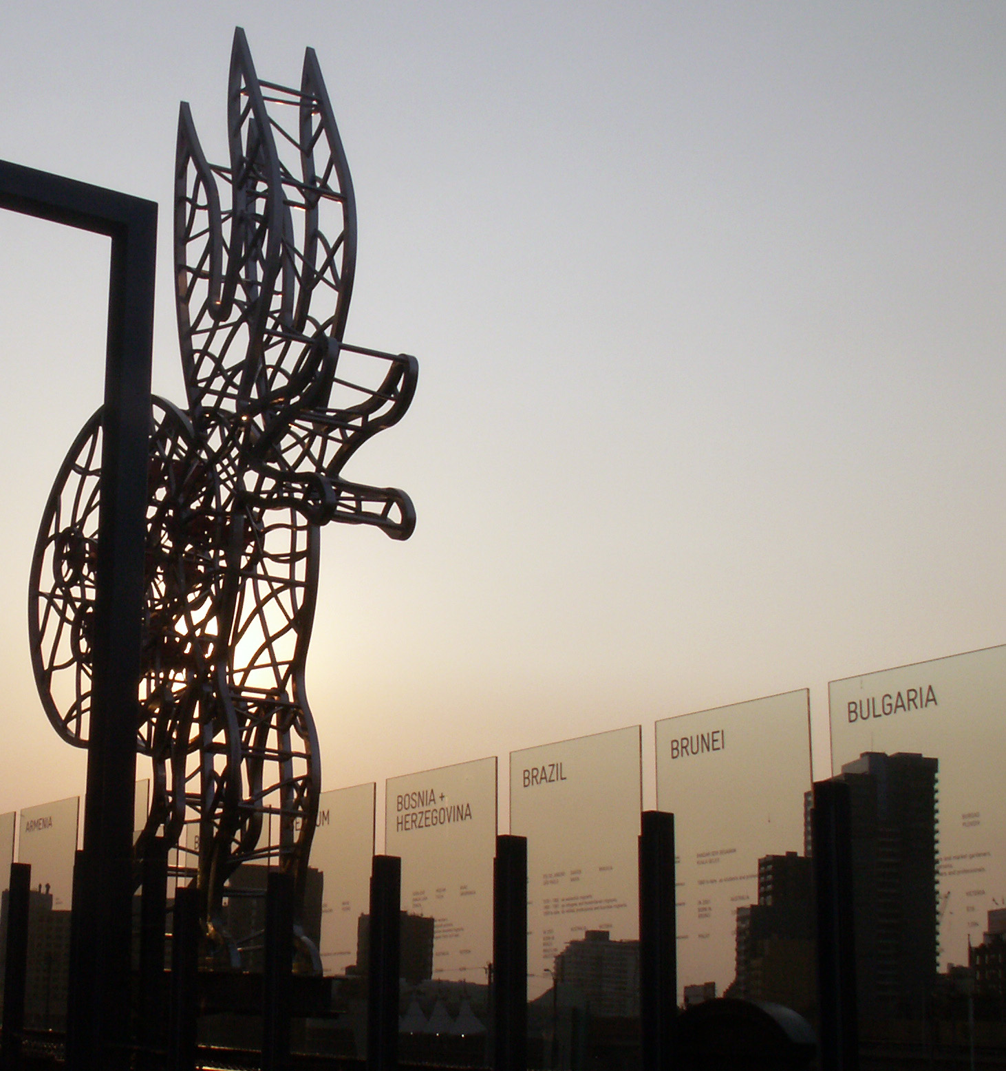 Sandridge Bridge, Melbourne with one of the metal sculptures and descriptions of countries from which immigrants arrived from.